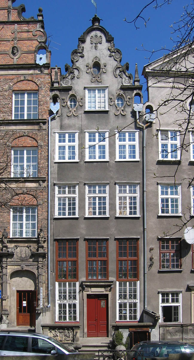 Gdansk, Poland, "Turtle"-House.